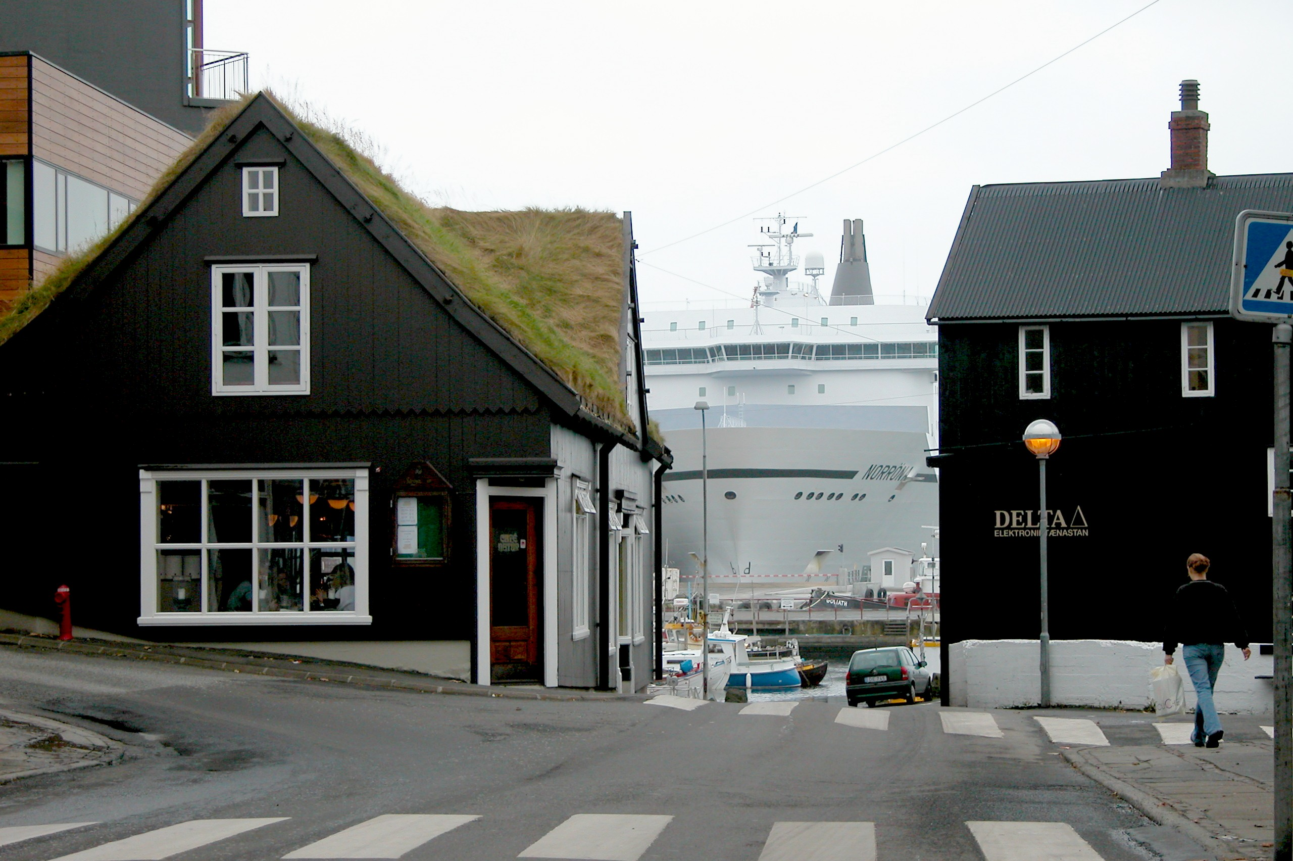 The ferry Norröna in Tórshavn